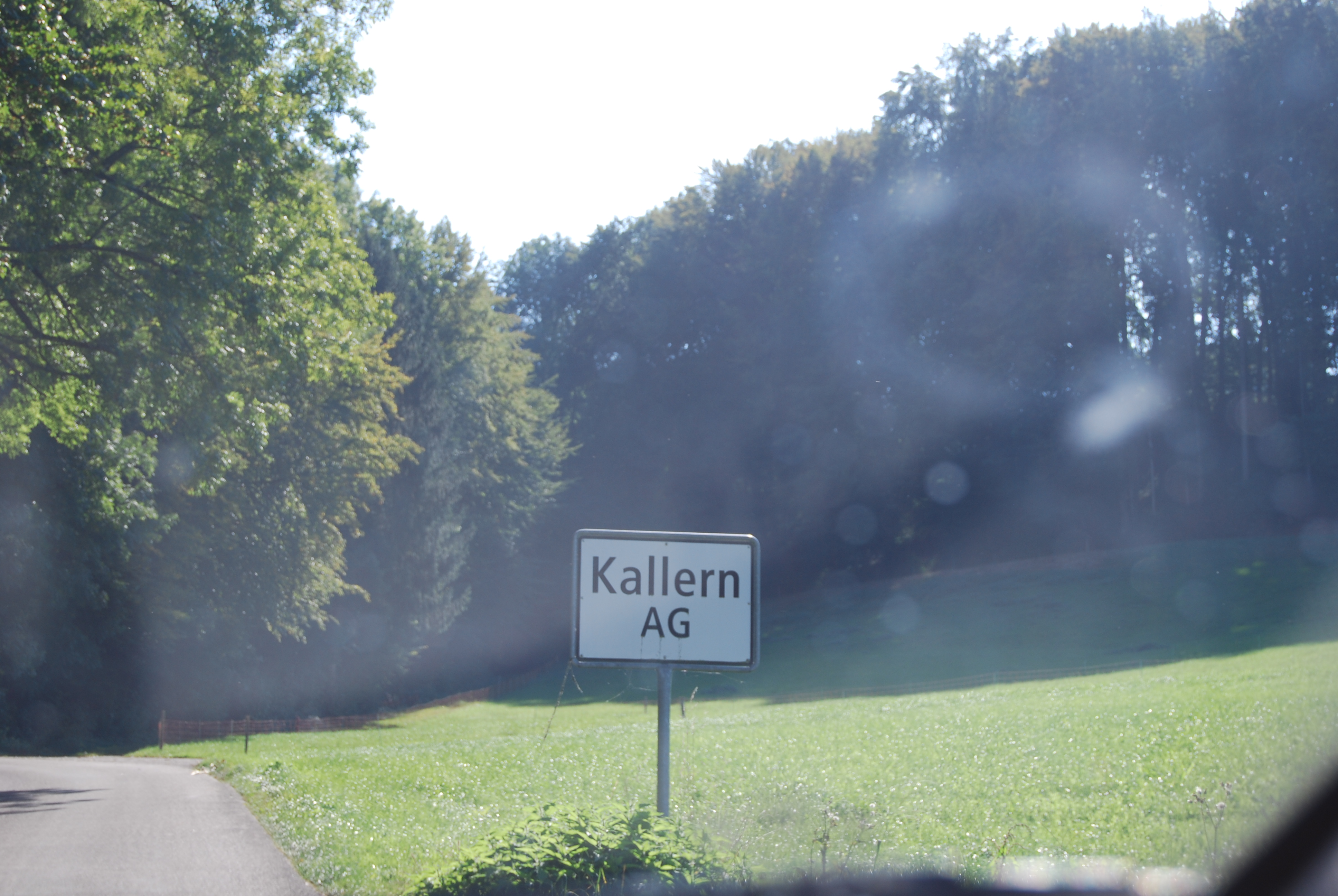 Village entry Kallern, canton of Aargau, SwitzerlandEsperanto: Vilaĝalveturejo de Kallern, Kantono Argovio, Svislando